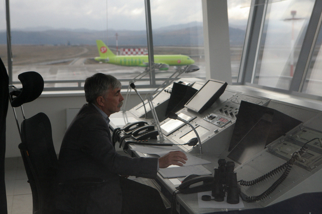 “First Airbus A320 flight to Gorno-Altaisk Airport”. A dispatcher in the control tower at Gorno-Altaisk Airport.